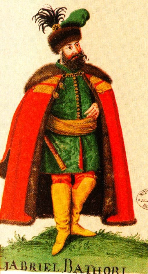 Gabriel Bathori, prince of Transylvania (1608-1613)